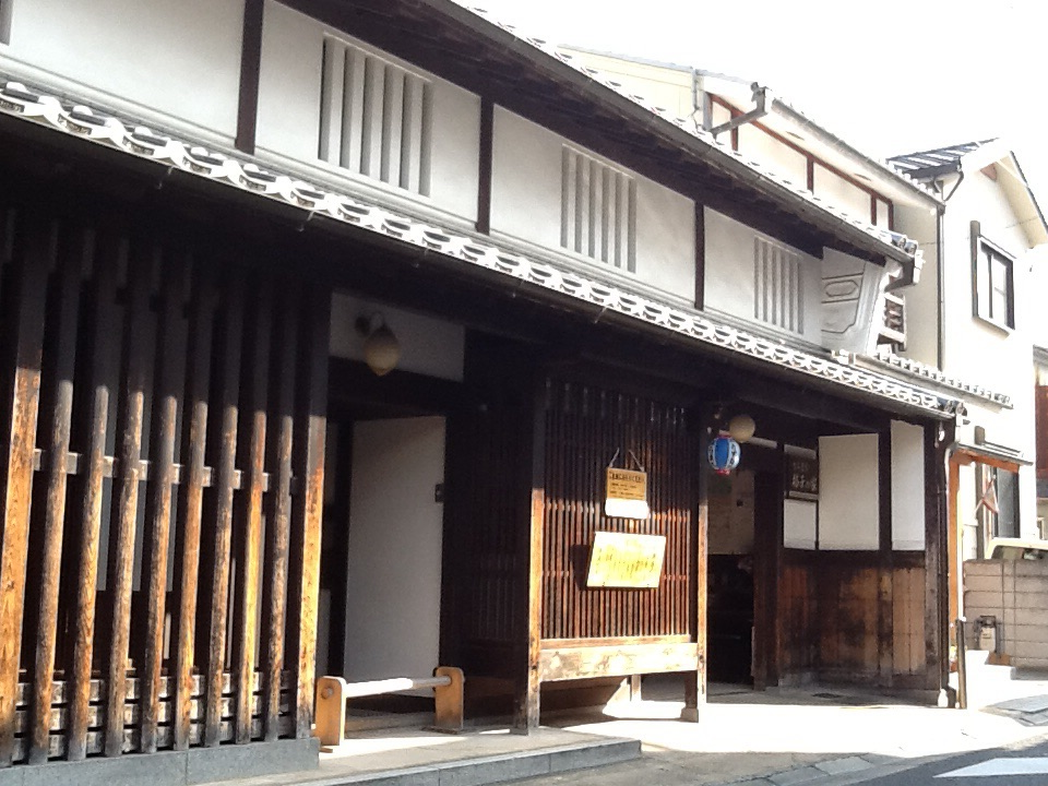 This is " Koushinoie" in Nara